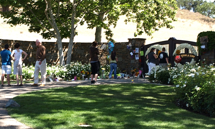 A group of fans visiting the make-shift Michael Jackson memorial in front of the gated entrance to Neverland Ranch three days after the musician had passed away.